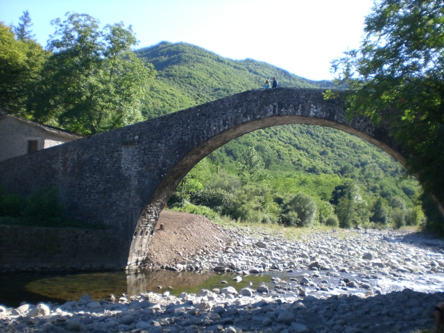 Picture of "Ponte di Castruccio Castracani"